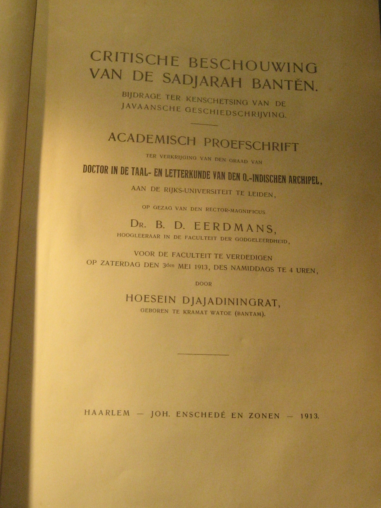 Dissertation of Husein Jayadiningrat, Leiden University 1913.